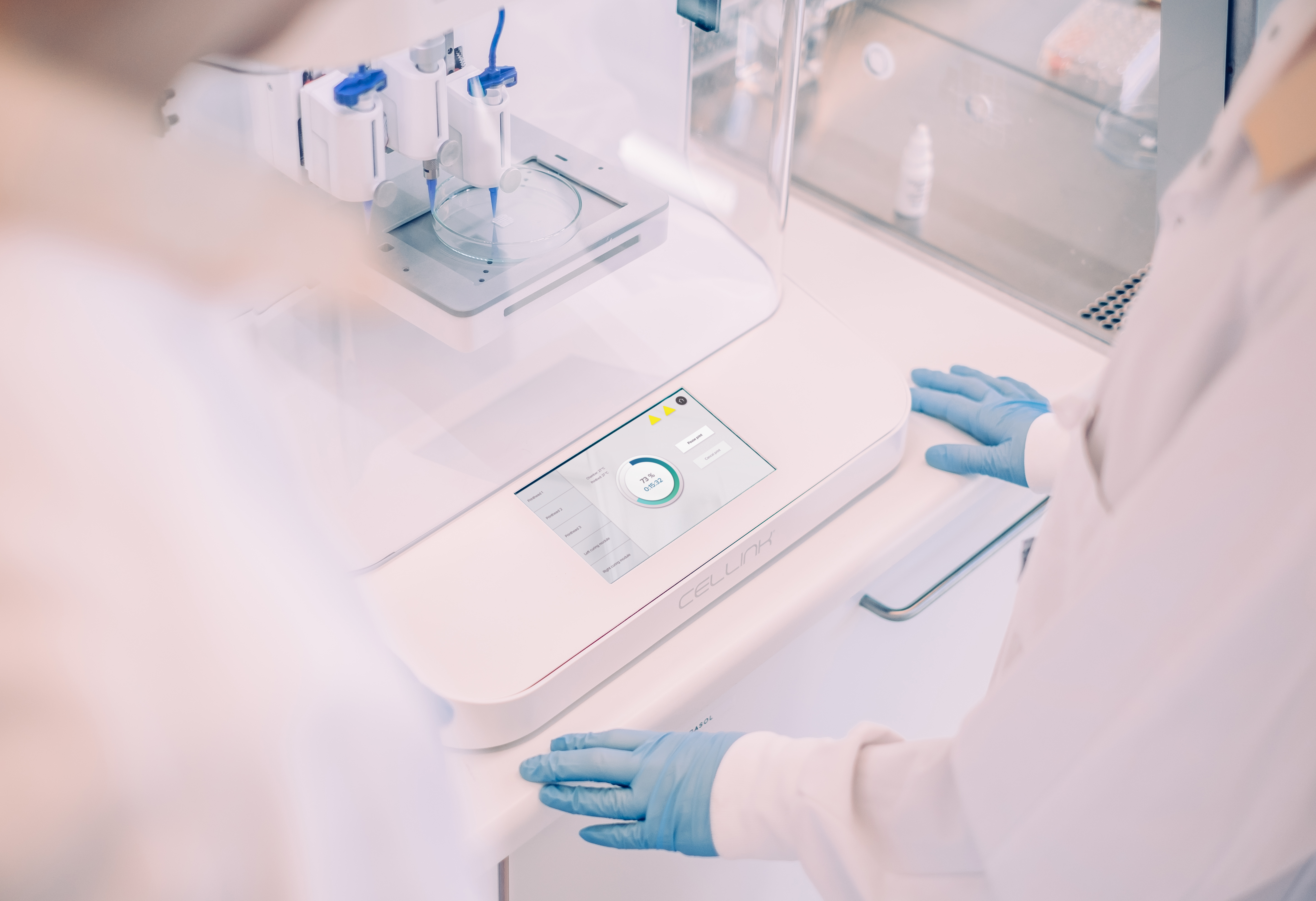 This image shows two researchers in a lab watching the printbed temperature as they bioprint a construct on a bioprinter.